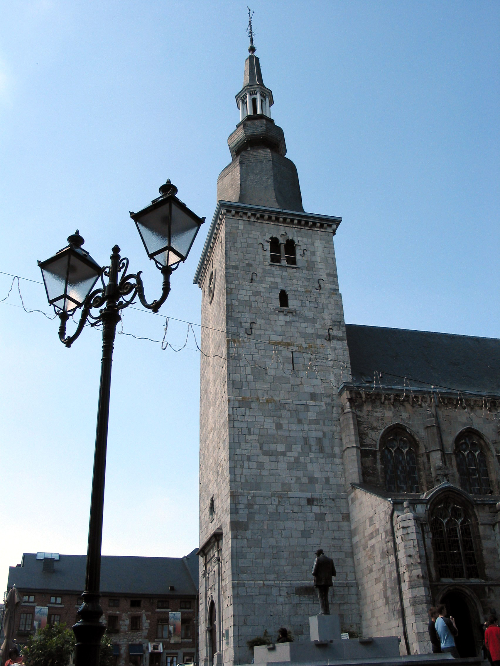 Marche-en-Famenne (Belgium), the Saint Remaclus’ church.